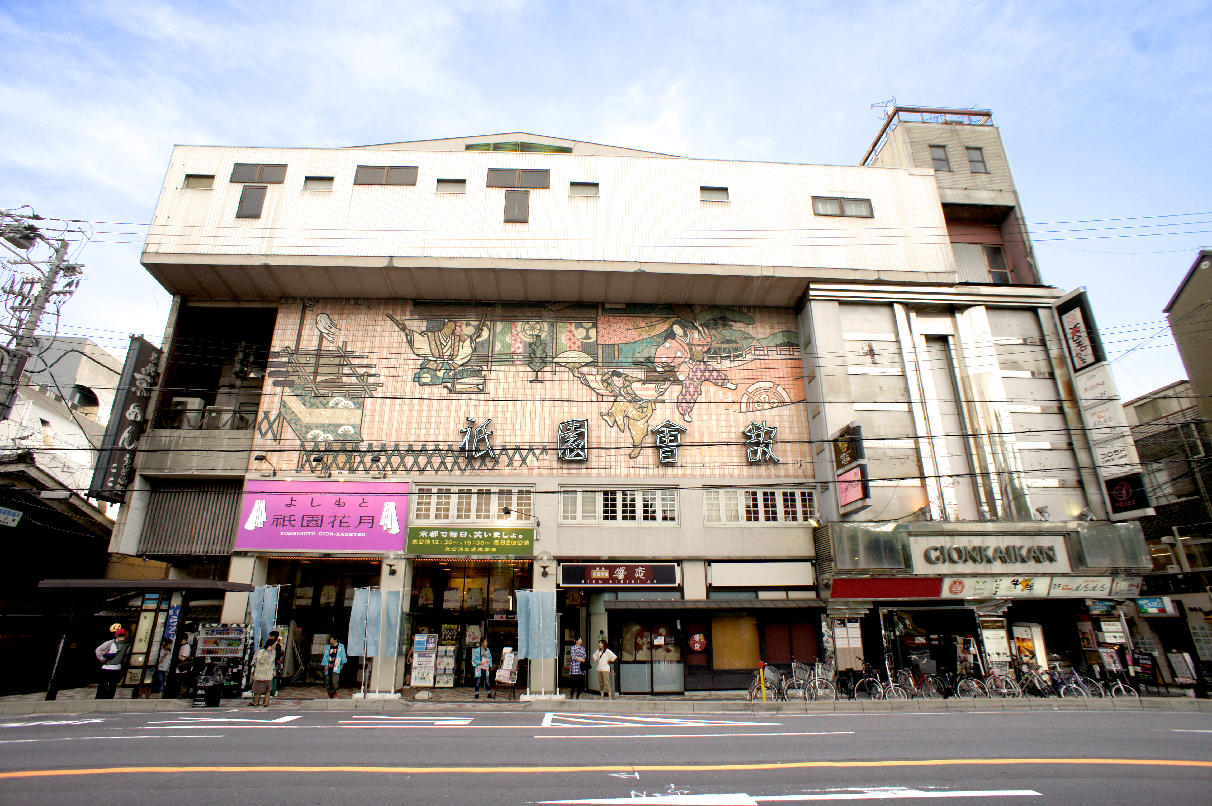 Gion Kaikan, 323 Gionmachikitagawa Higashiyama-ku Kyoto-City Kyoto Japan.